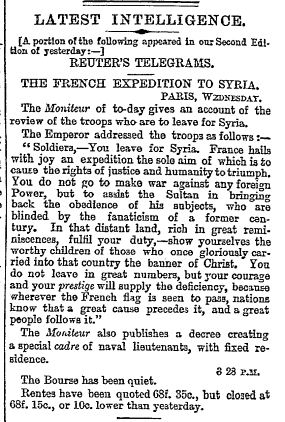 French Expedition in Syria, The Times, Thursday, Aug 09, 1860